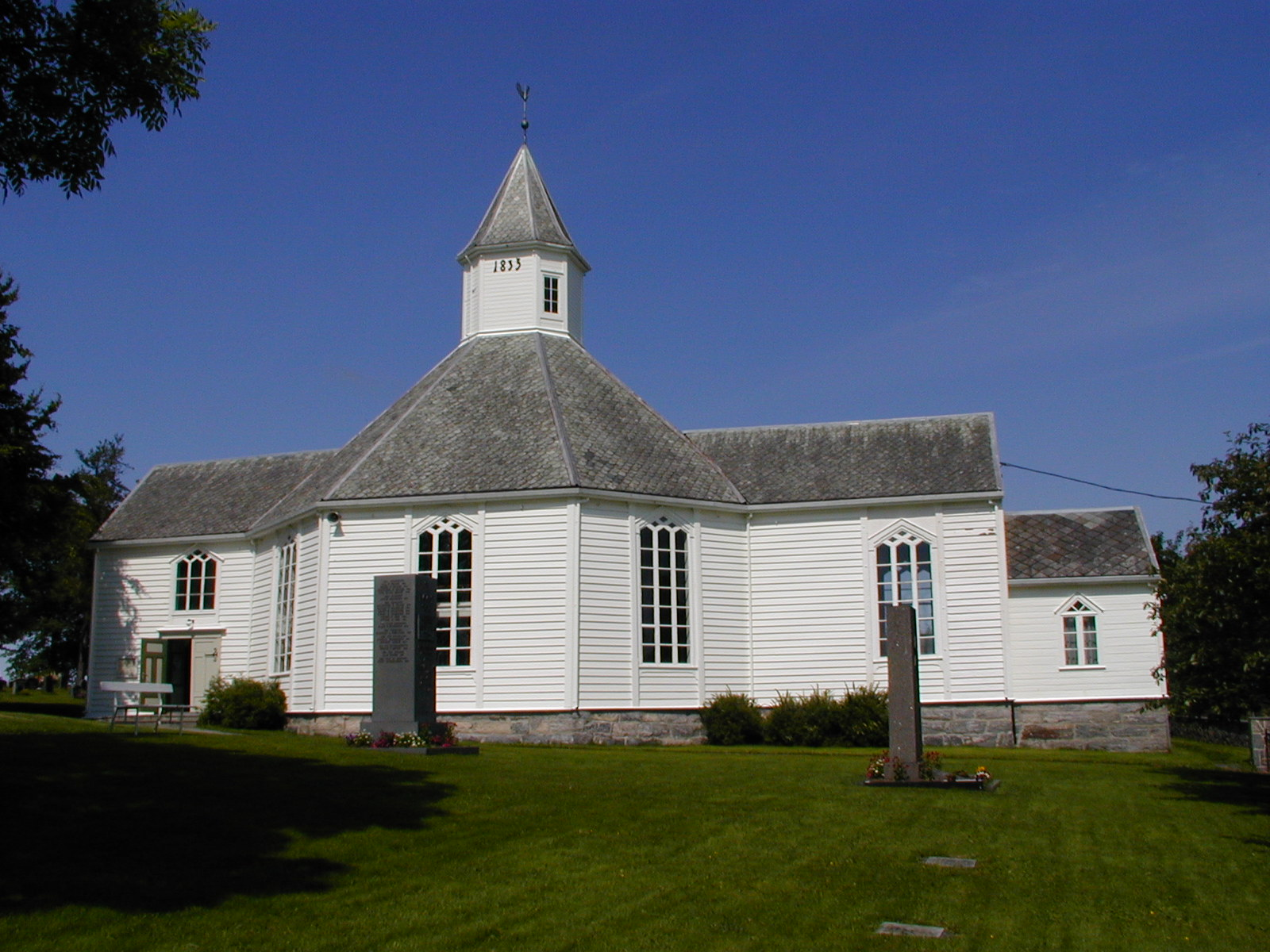 Aukra kirke fra sør. Foto: Max Ingar Mørk. Fra Riksantikvarens Kulturminnebilder.